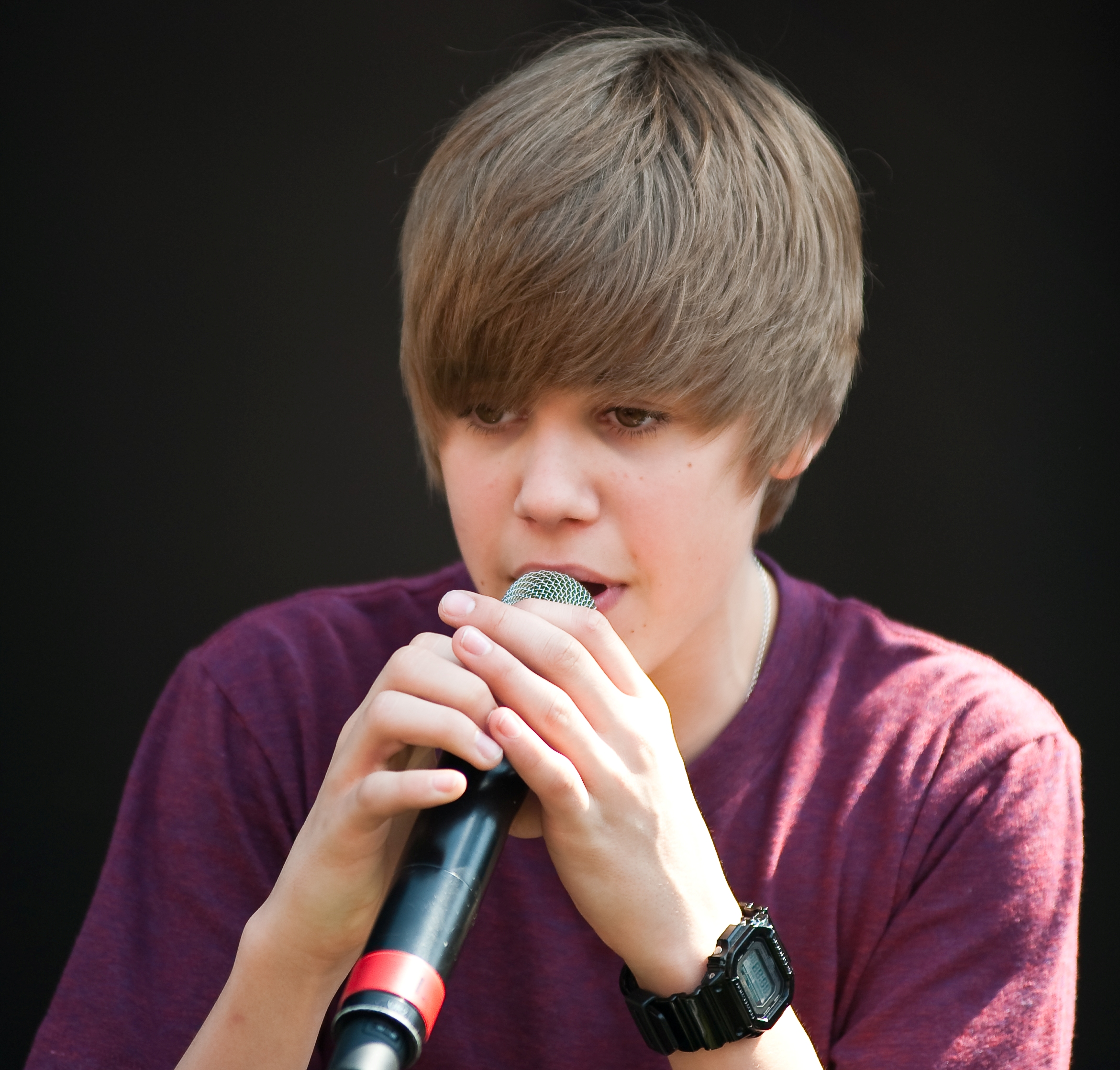 Justin Bieber at the 2010 White House Easter Egg roll